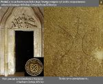 The sign is proto-Ostoja CoA, created in ab. 1232 by Nicolaus Ostoja of Sciborzyce.